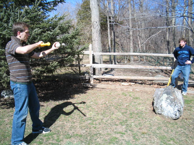 Wiffle golf - a sample chip shot. The player holds ball in hand and strikes it with the bat, attempting to strike the rock shown on the right with the ball.